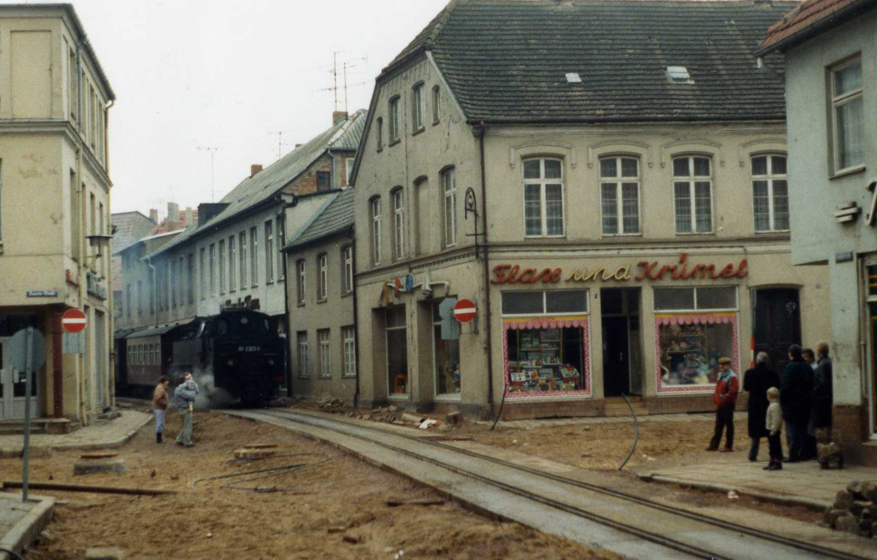 Road surfacing outside the elegantly lettered Flax und Krümel shop as a train bound for Kuhlungsborn squeezes between the houses. Flax und Krümel was the very first TV series in the GDR solely for children, running from 1955 until 1970, utiliing puppets. I guess this was a toyshop. Locomotive no 99 2323-4